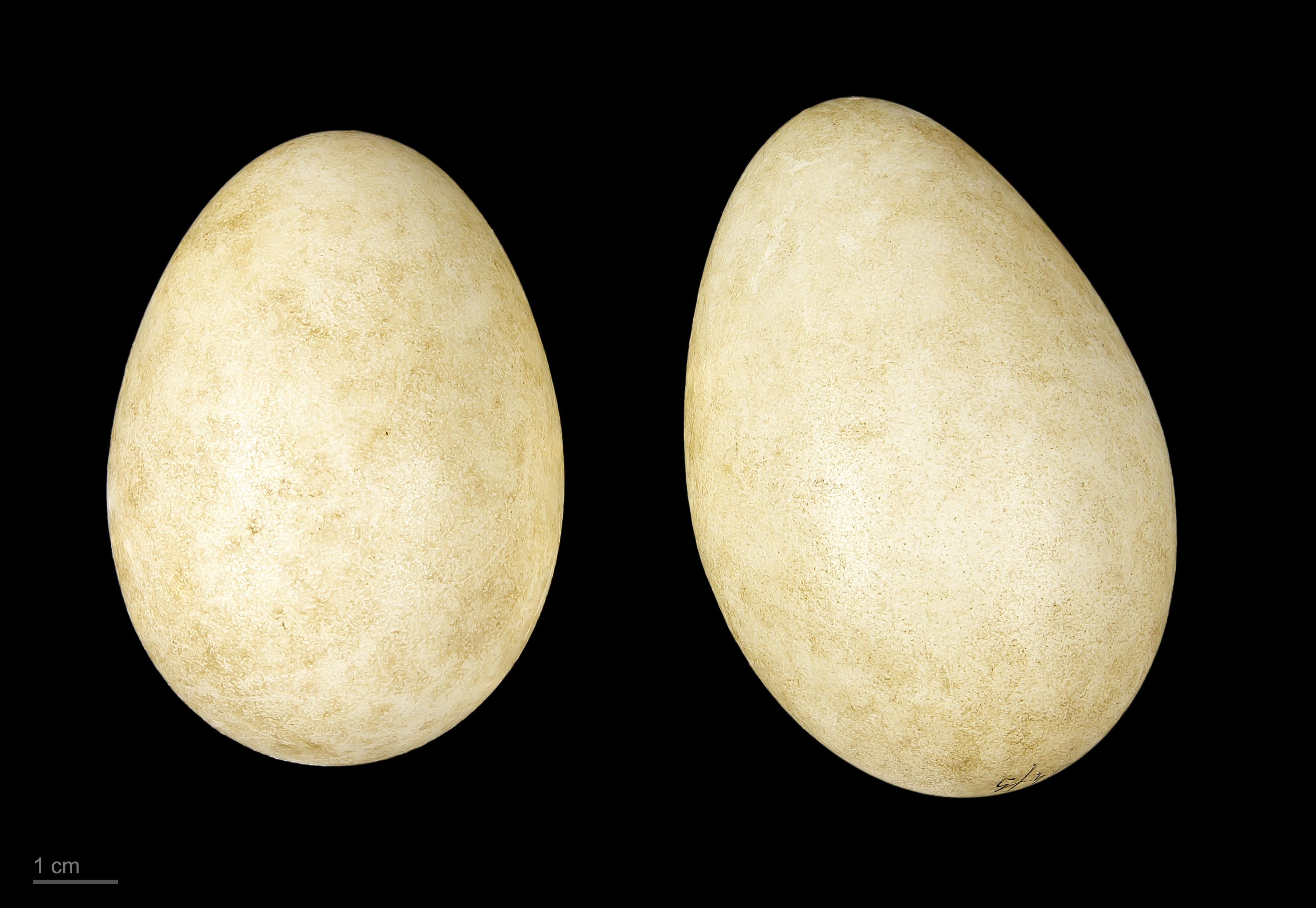 Egg of lesser white-fronted goose Collection of Jacques Perrin de Brichambaut.